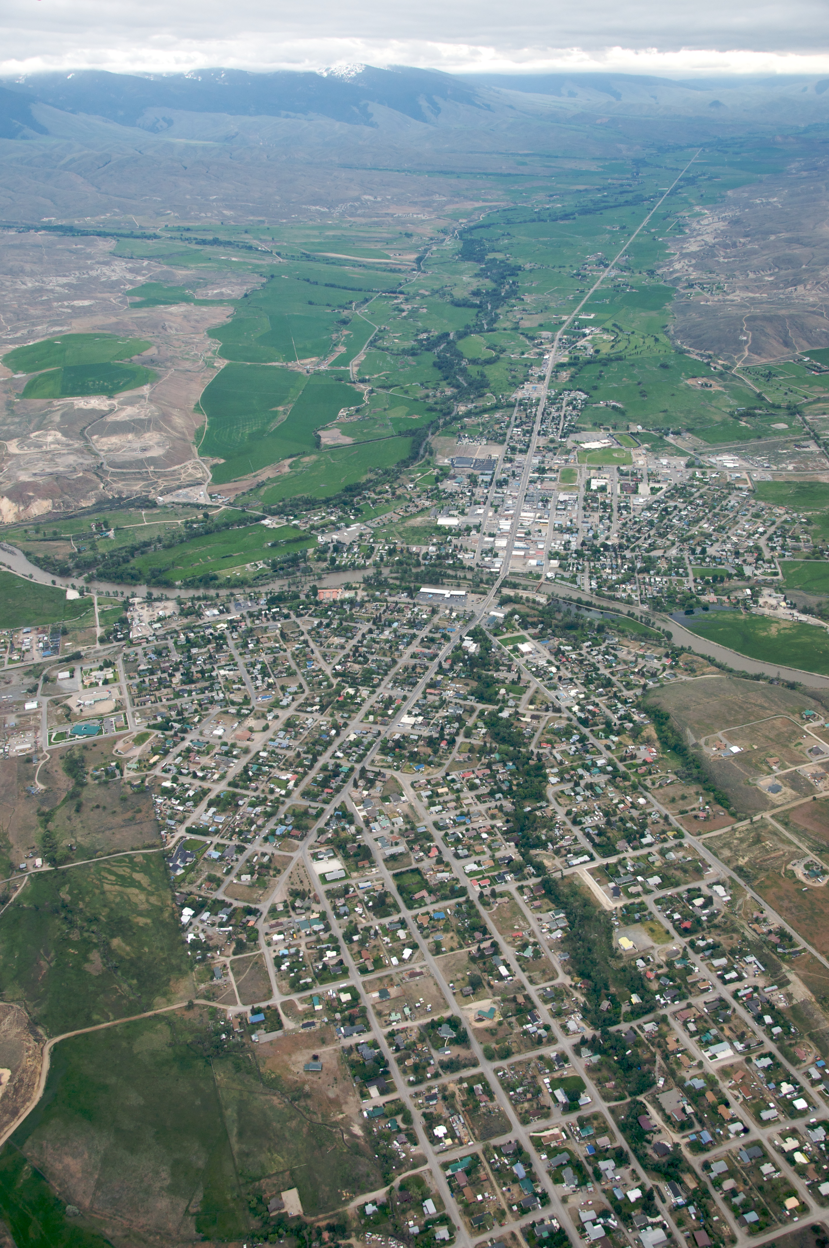 Aerial view of Salmon, Idaho, USA